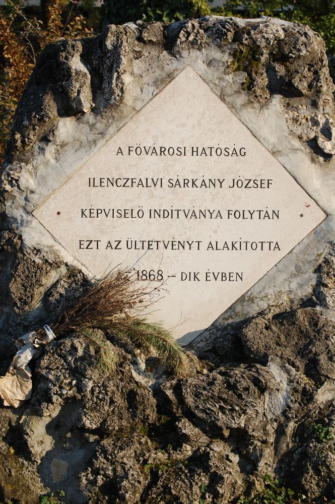 József Ilenczfalvi Sárkány commemorative plaque in Budapest District X, People's Park.